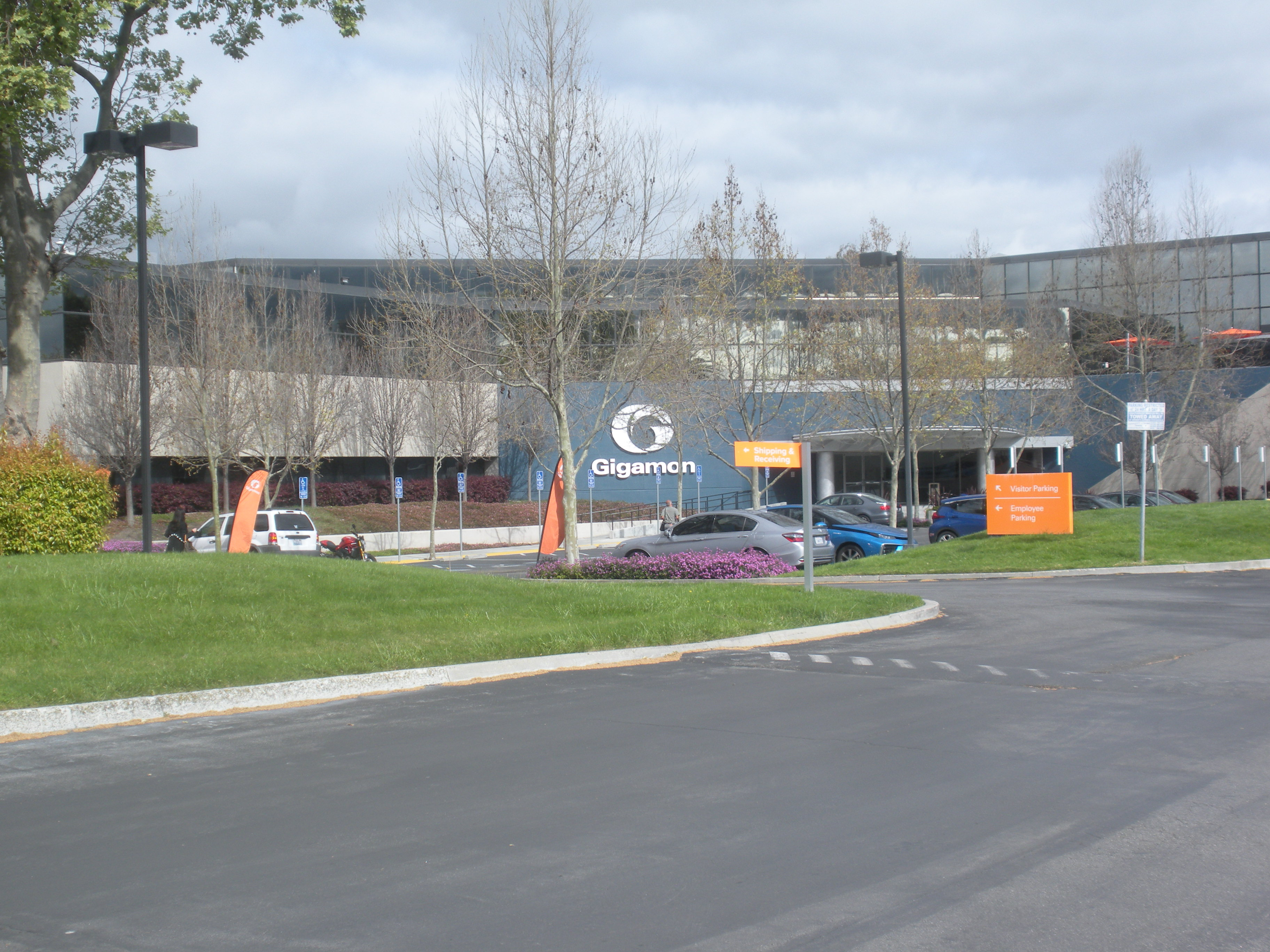 This is the Gigamon headquarters in Santa Clara, California. Originally posted to my Flickr